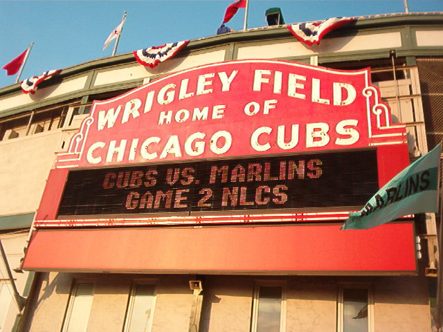 Wrigley Field's marquee, approximately two hours before the second game of the 2003 NLCS against the Florida Marlins.